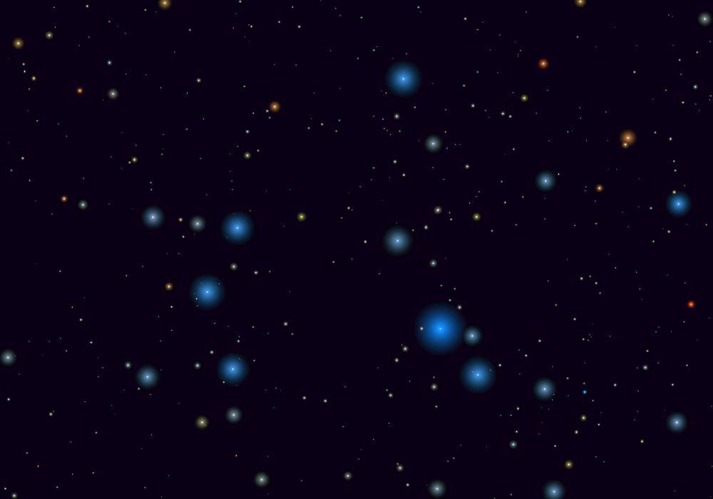 IC 2602, open cluster in Carina